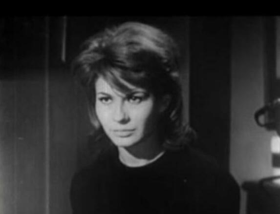 Franca Bettoia in The Last Man on Earth